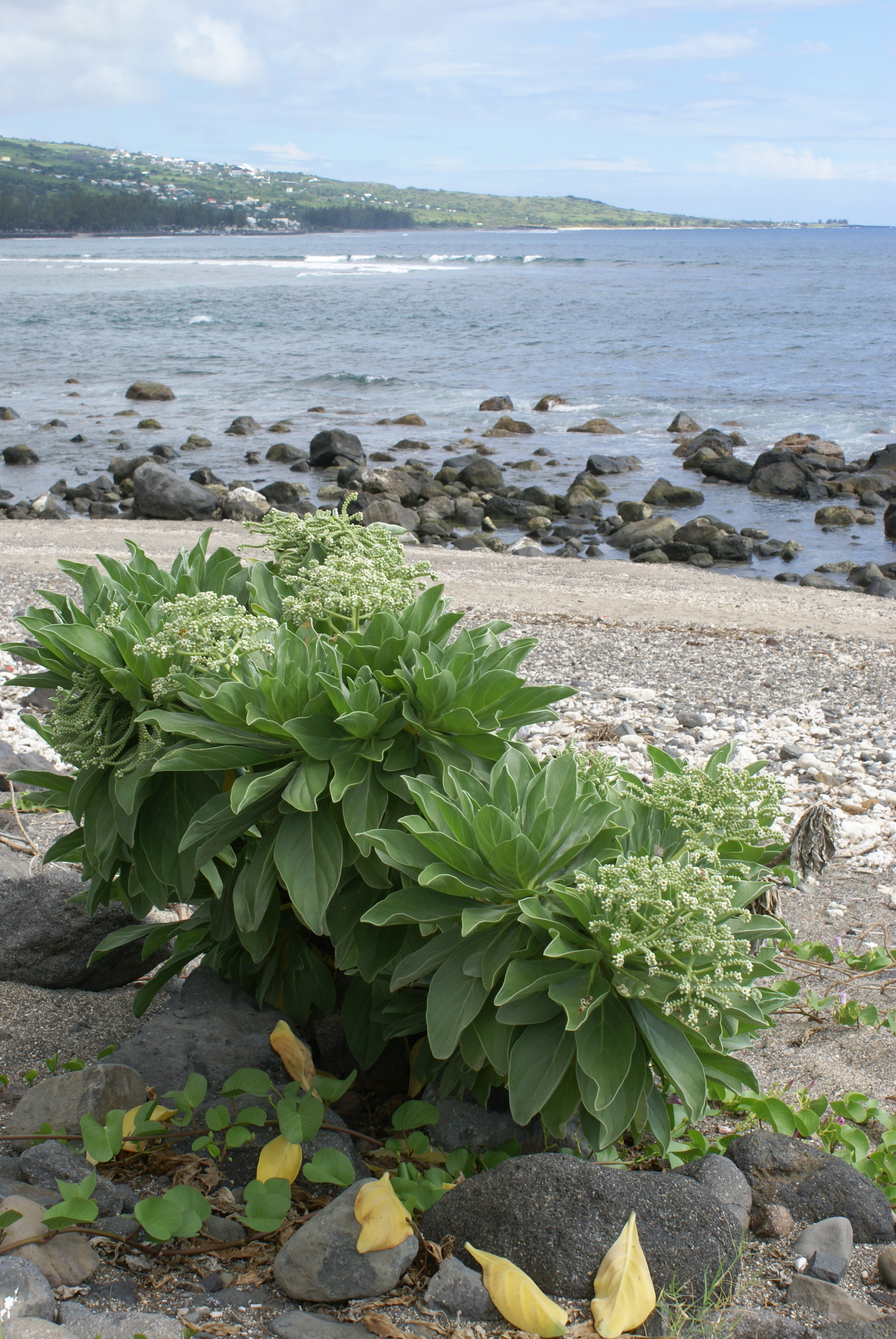 Heliotropium foertherianum ex-Tournefortia argentea on a beach of Saint-Leu (Réunion island